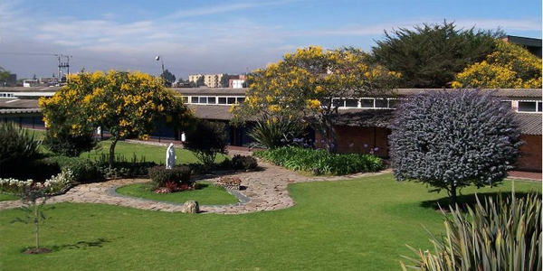 Panoramic view of the school.